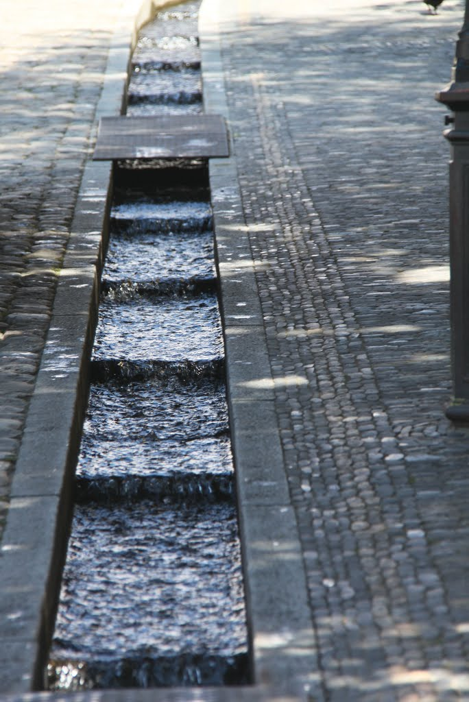 Freiburg_Baechle.jpg